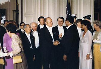 October 2, 1975 photo of baseball player Hank Aaron being greeted by U.S. President Gerald Ford (in black tuxedo) at the White House during a state dinner for Japanese Emperor Hirohito